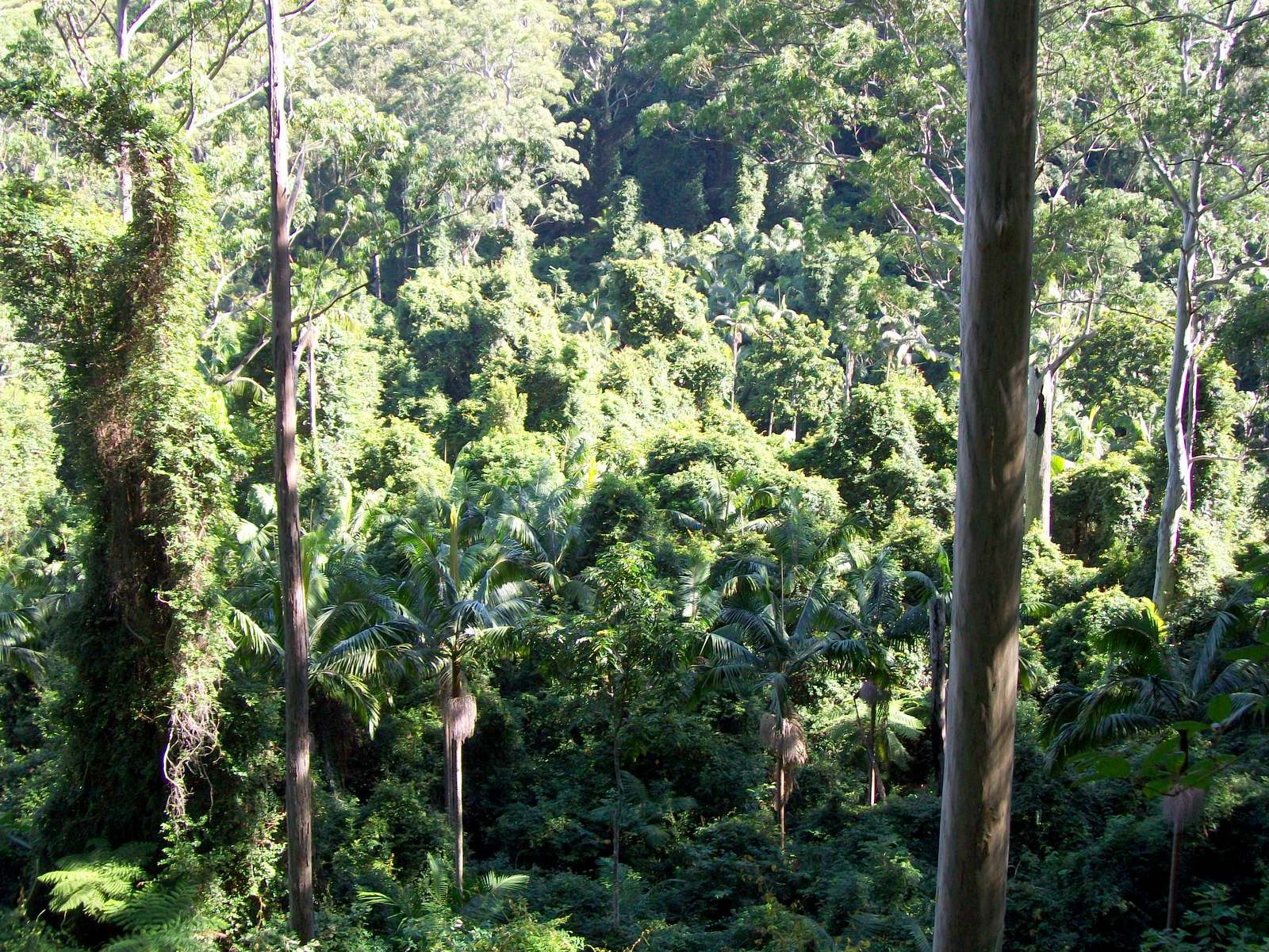 Muirs Lookout rainforest. Near Newcastle, NSW, Australia